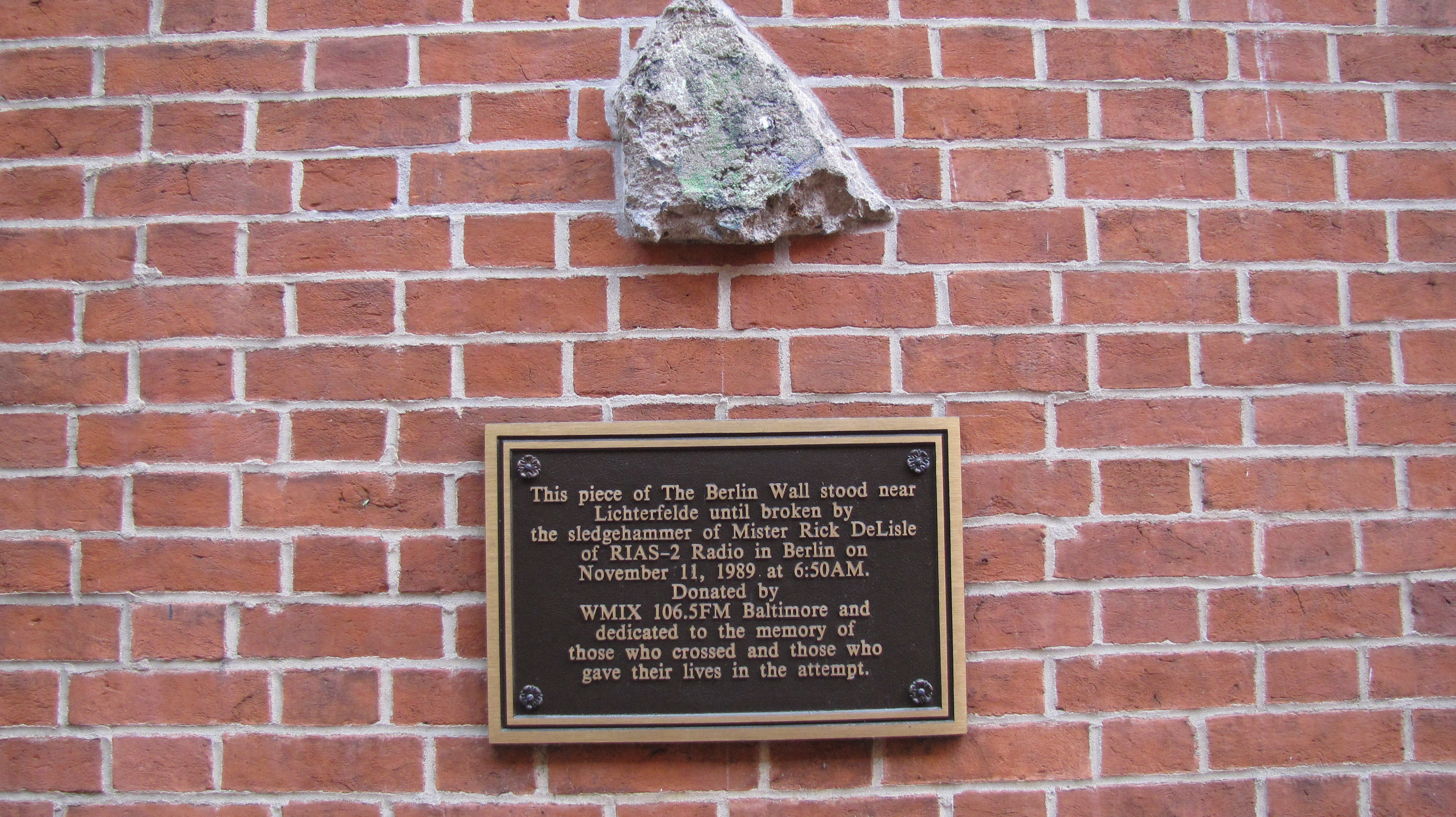 A piece of the Berlin Wall at Zion Lutheran Church, Baltimore, MD. The inscription reads: "This piece of the Berlin Wall stood near Lichterfelde until broken by the sledgehammer of Mr. Rick DeLisle on November 11, 1989, at 6:50 am. Donated by WMIX 106.5 FM Baltimore and dedicated to those who crossed and those who gave their lives in the attempt.